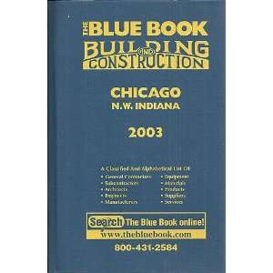 pic of my personal copy of the blue book